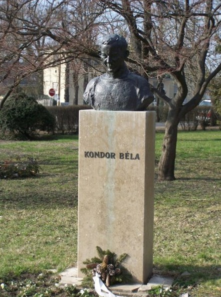 Kondor Béla Bust (works for public spaces)